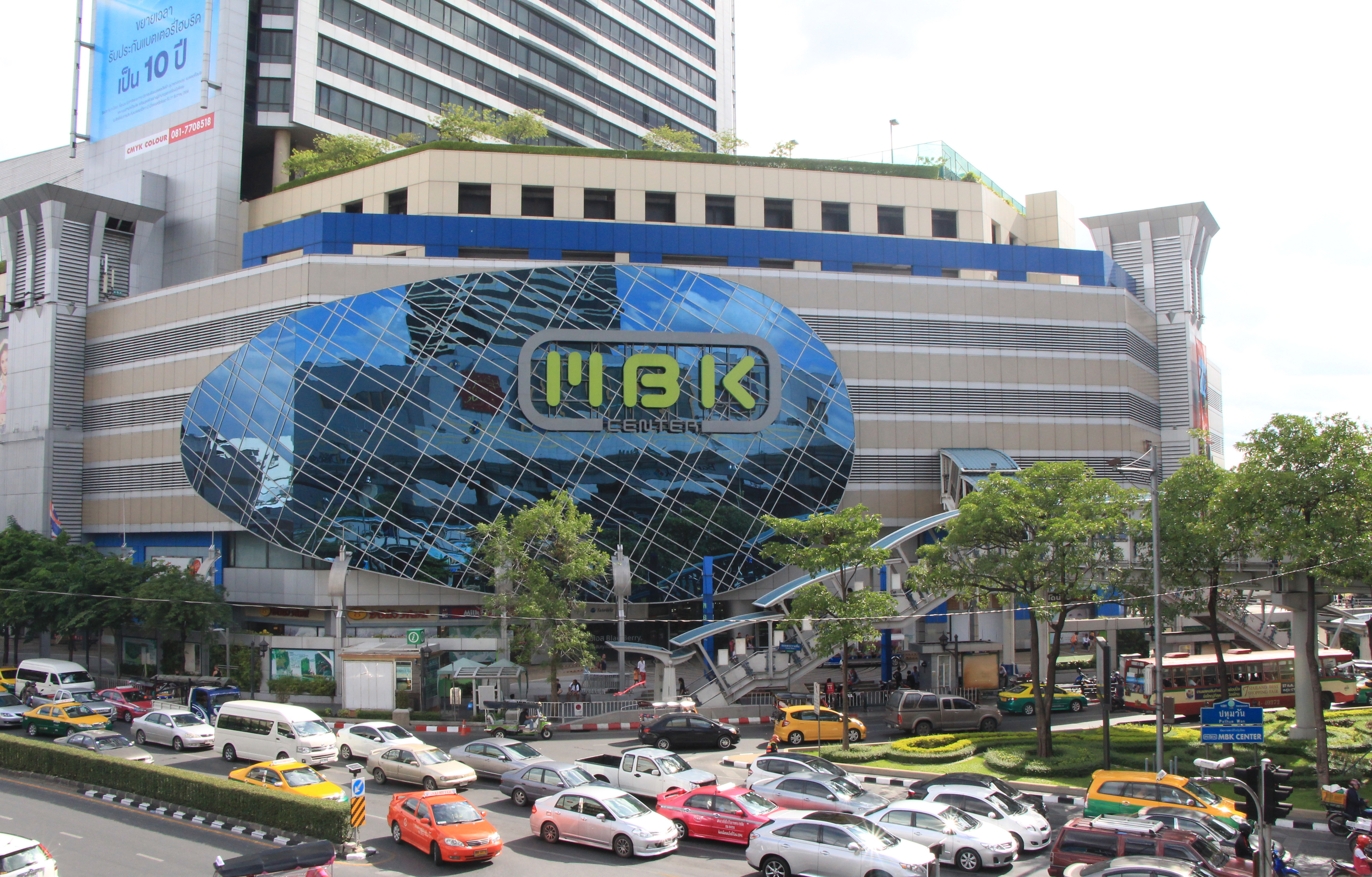 MBK Center from BTS skywalk